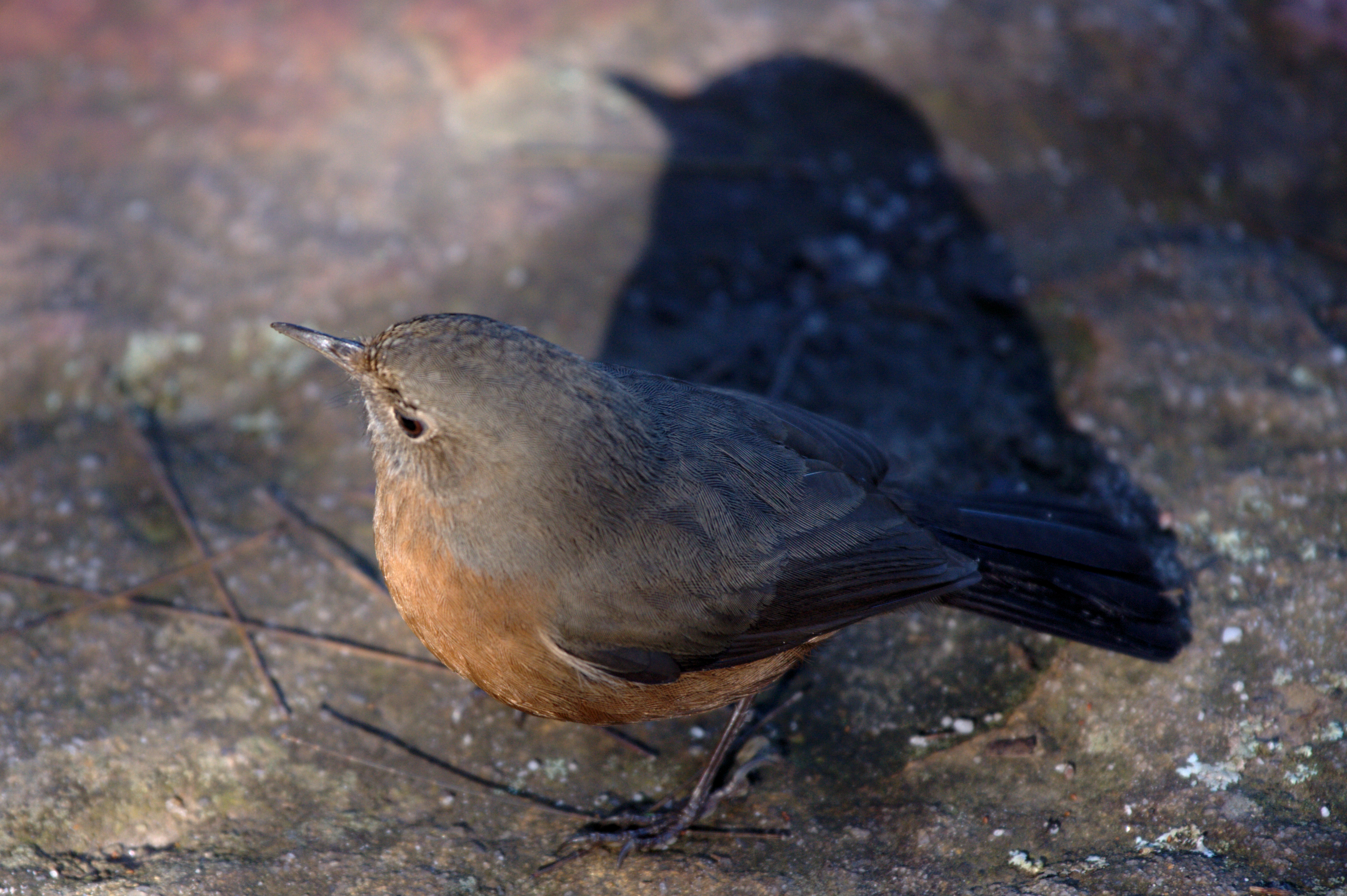 Taken in the Blue Mountains near wentworth falls if memory serves me right.